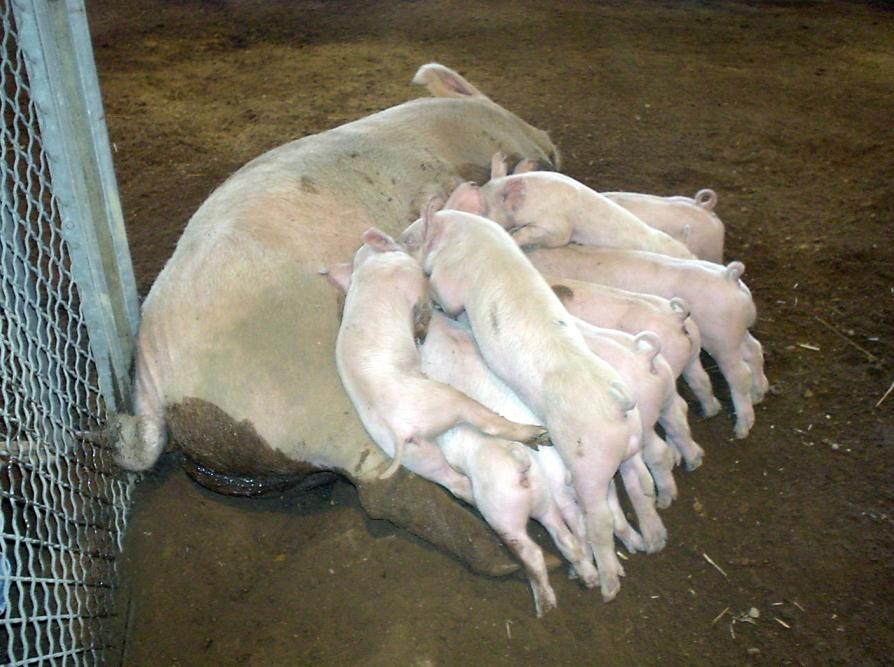 Domestic pig feeding taken September 2003